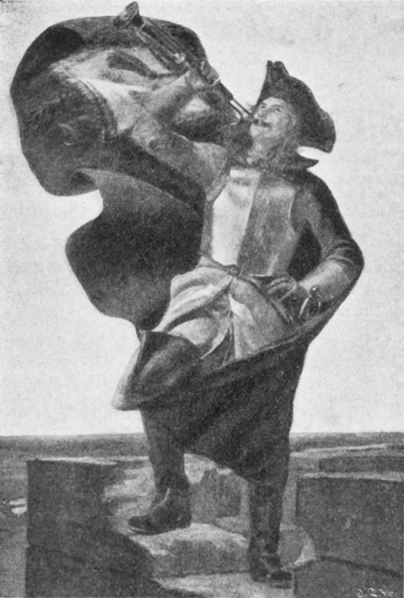 Painting: "Revelj" (en. Reveille), by swedish artist Gustaf Cederström (1845-1933).